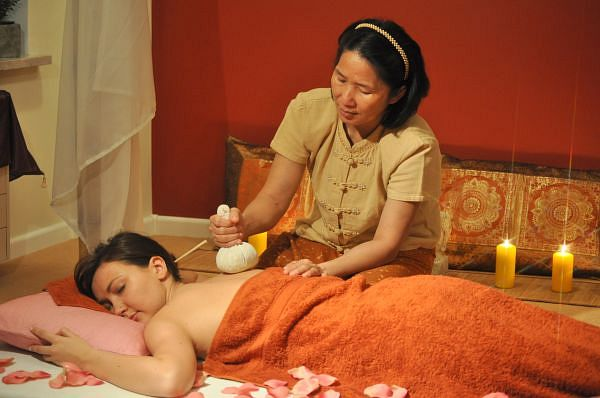 Herb balls massage